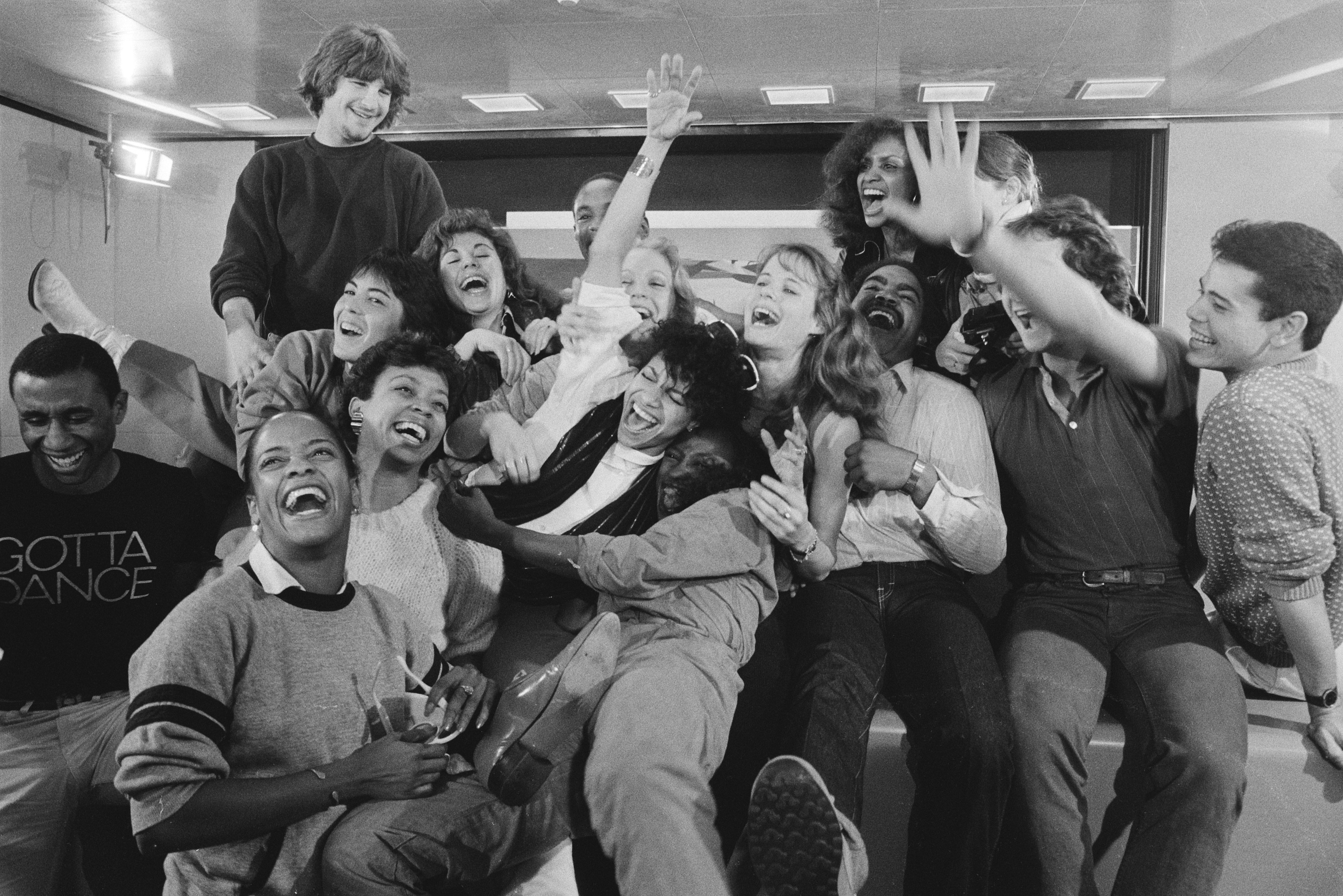 "The Kids from Fame" at Schiphol Airport, Amsterdam, Netherlands. They are performers on Fame (1982 TV series). Gene Anthony Ray is in the back row partially covered by Debbie Allen's arm. Debbie Allen is in center of photo, with sunglasses on top of her head; Lori Singer is behind Allen, near her sunglasses. Carlo Imperato is at top left, wearing black sweatshirt.